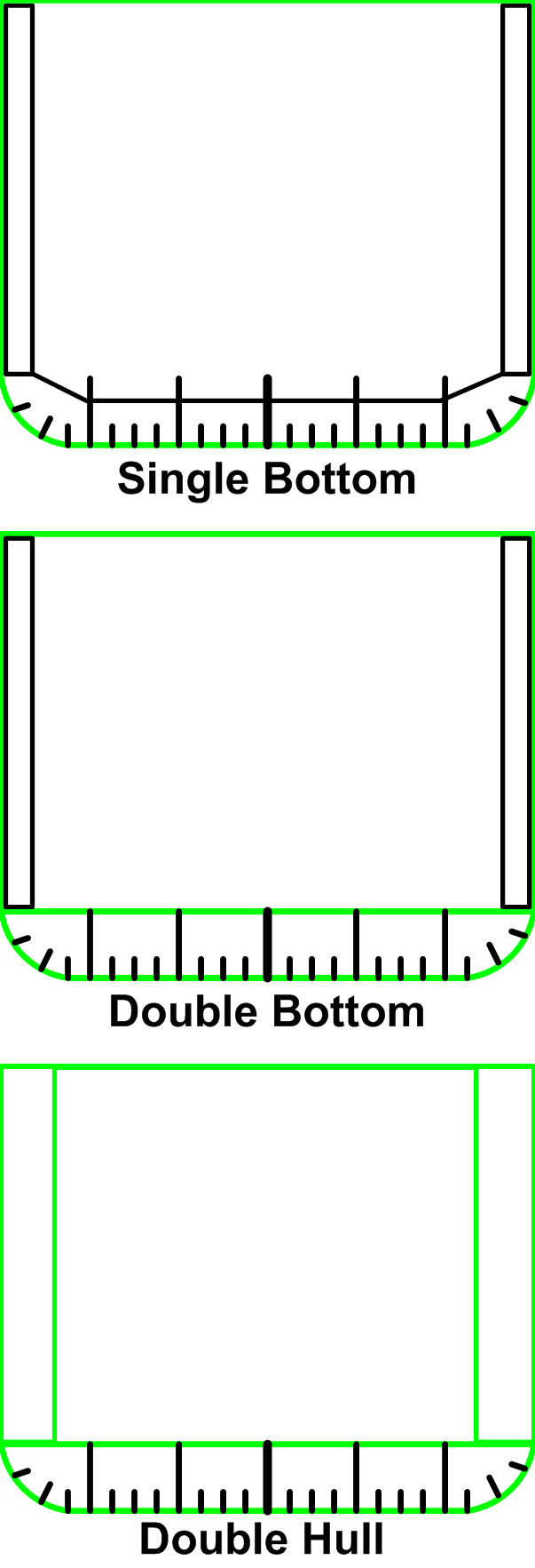 This drawing of Single hull, Double bottom, and Double hull ship hull cross sections created on 2006-05-02 by George William Herbert. Licensed to Wikipedia and any other use under the Creative Commons Attribution Share-alike license revision 2.5. The green lines are watertight hull sections, black are non-watertight structural elements.